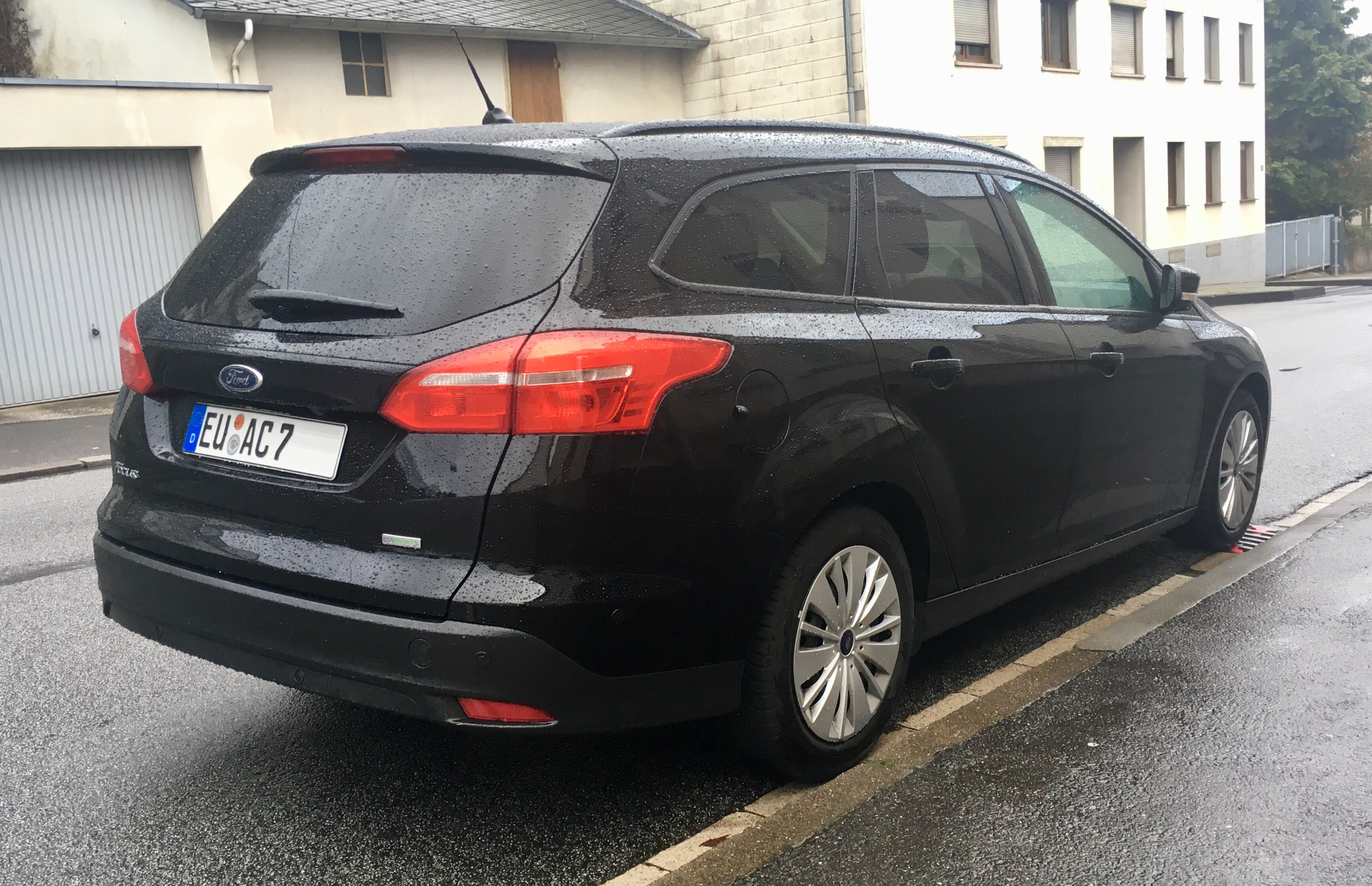 Ford Focus Station-Wagon in Trier, Germany